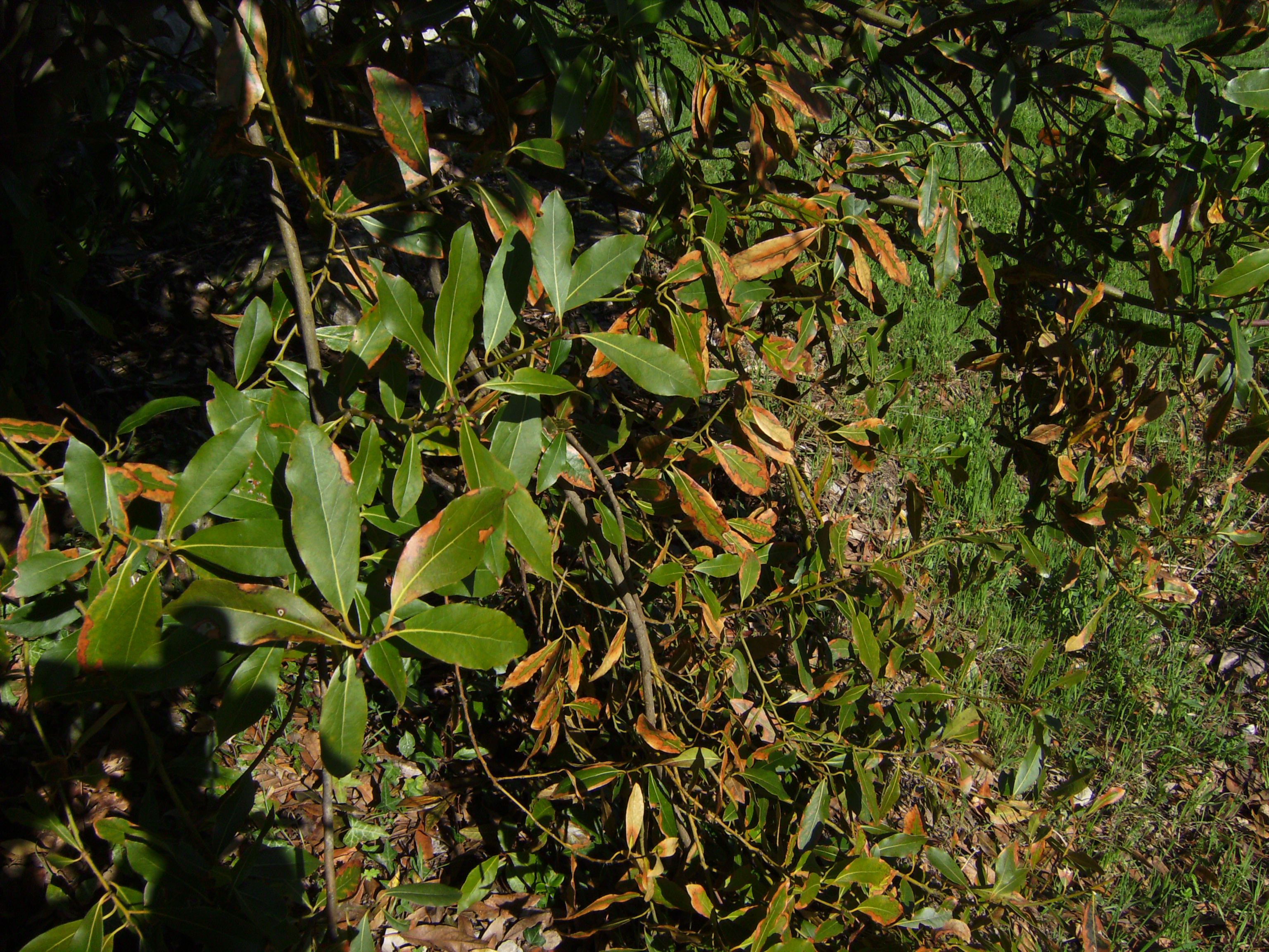 Laurel (Laurus nobilis) showing damage by freezing (-12 º C) in February 2012, the margins of the leaves showing necrosis